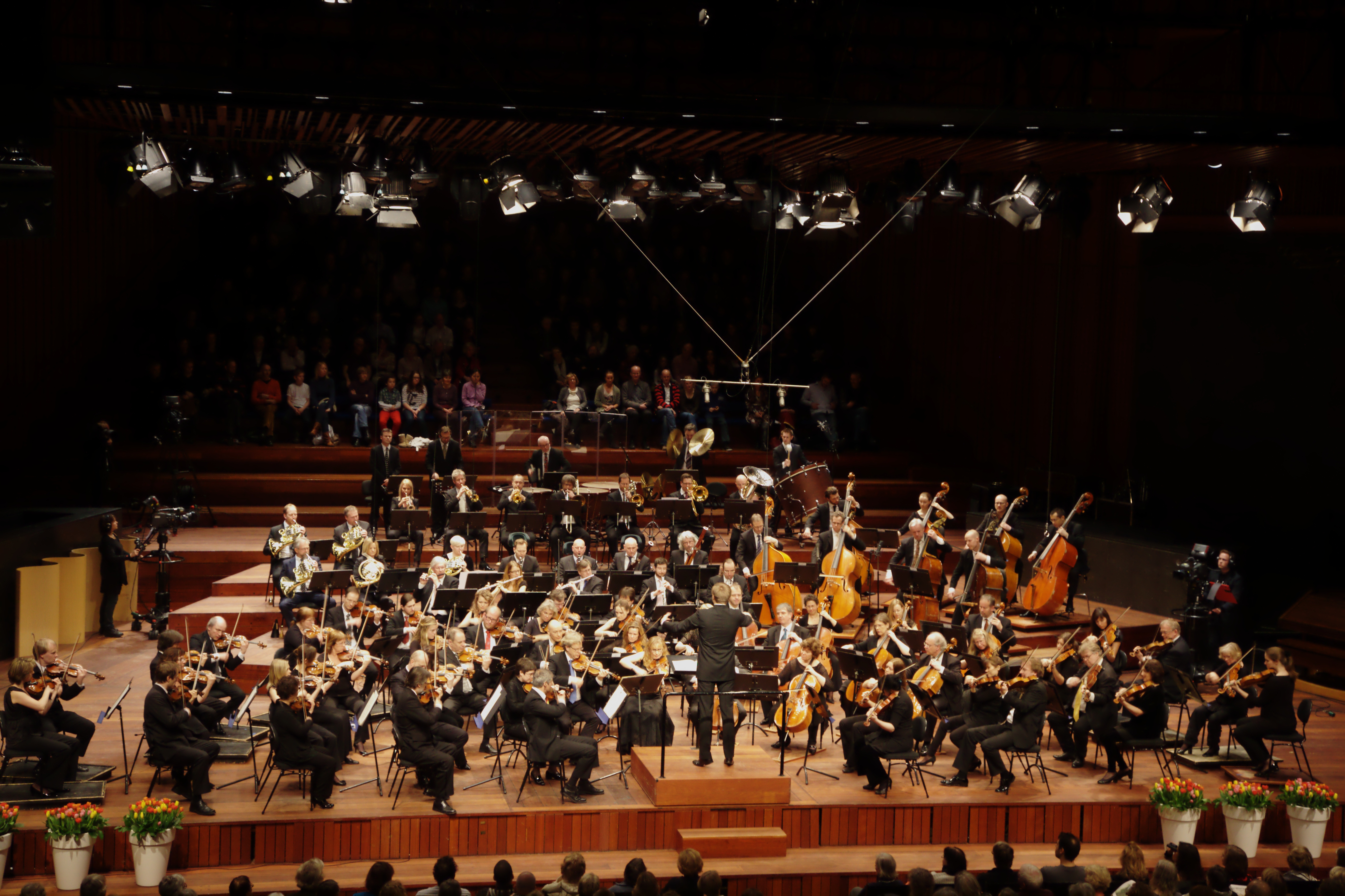 Oslo Philharmonic conducted by Vasily Petrenko on the introductory concert after it was announced that he were to be principal conductor of the orcestra starting in 2013. They are playing Johan Svendsens piece Norsk kunstnerkarneval to a completely filled Oslo Concert Hall February 19, 2011